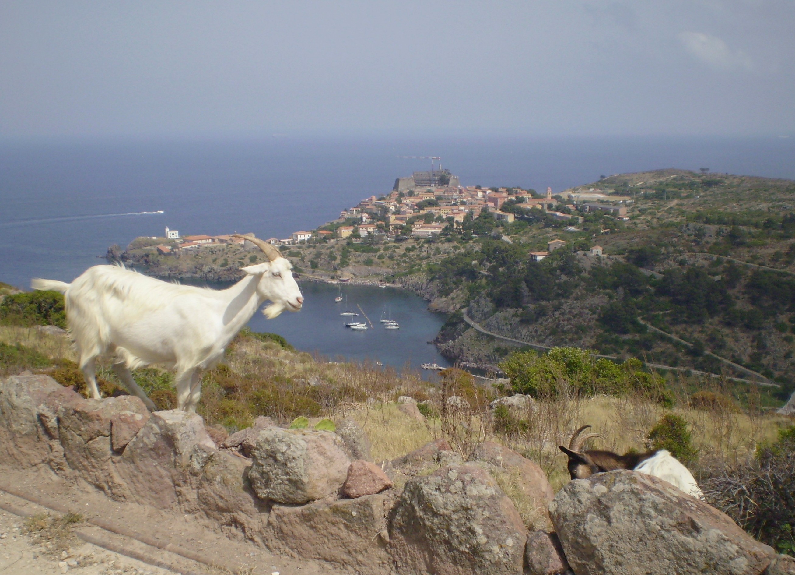 Island of Capraia, Tuscany, Italy. View of the main village